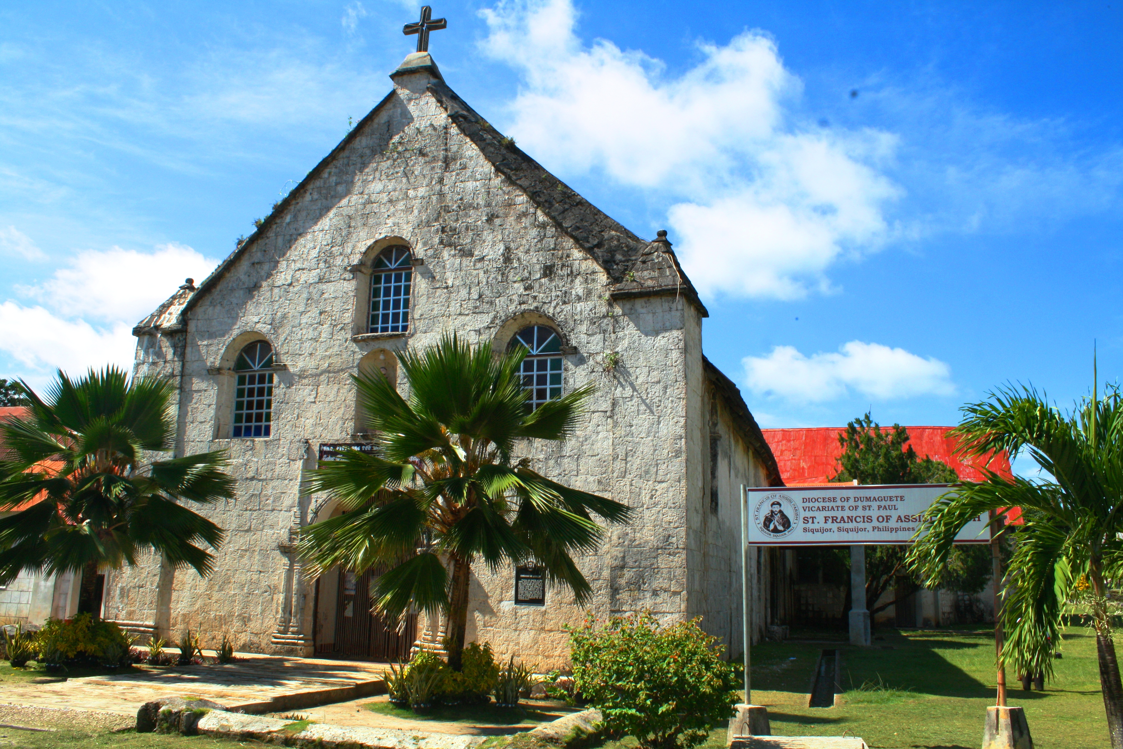 St. Francis of Assisi Church in Siquijor, Siquijor